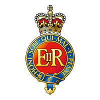 Cap badge of Blues and Royals